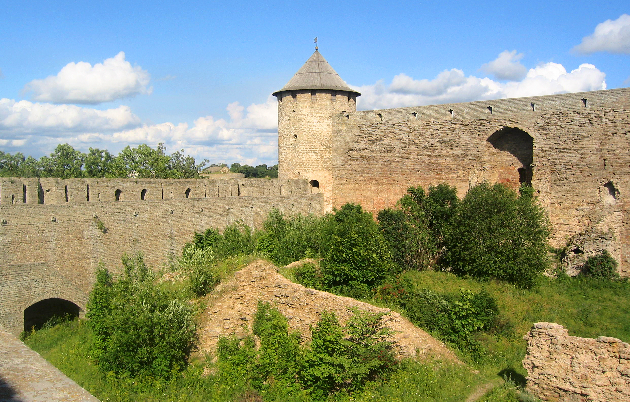 Ивангород 2007 (0004)